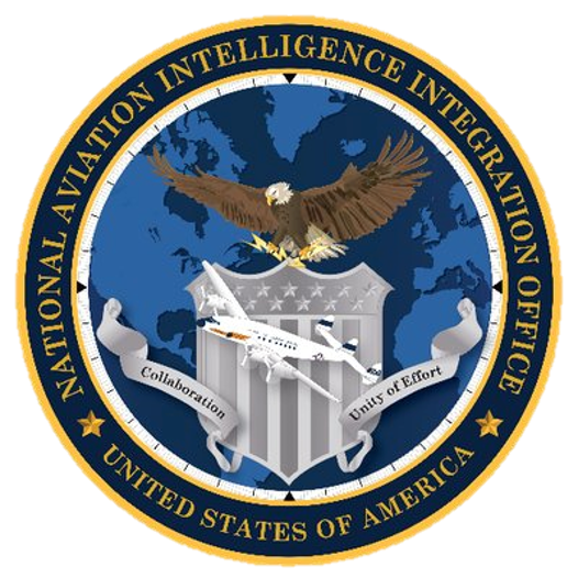 The seal of the National Aviation Intelligence Integration Office (NAI2O), the United States Government's (USG) lead on all policy and guidance development and promulgation efforts which pertain to the collection, exploitation, production, and dissemination of information pertaining to global aviation issues of interest to US interests and her allies. The NAI2O is subordinate to the Office of the Director of National Intelligence (ODNI).